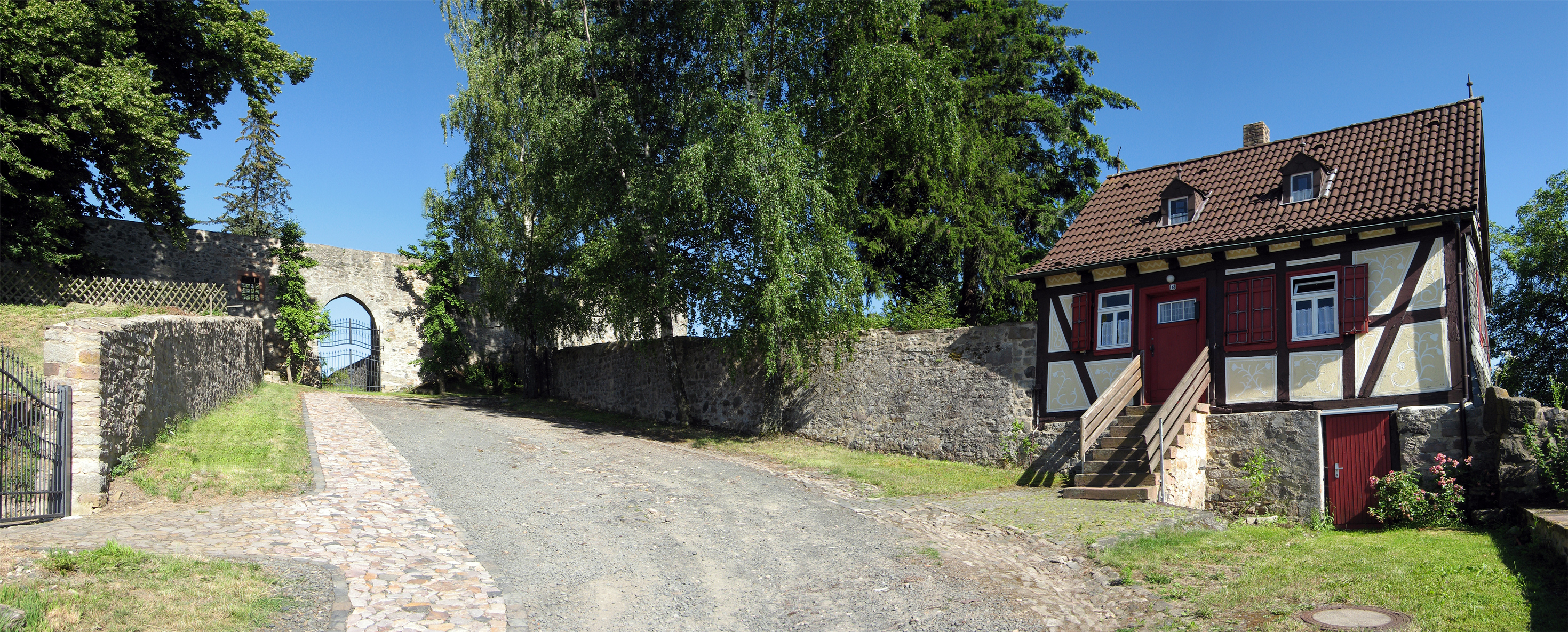 The castle of Homberg (Ohm)